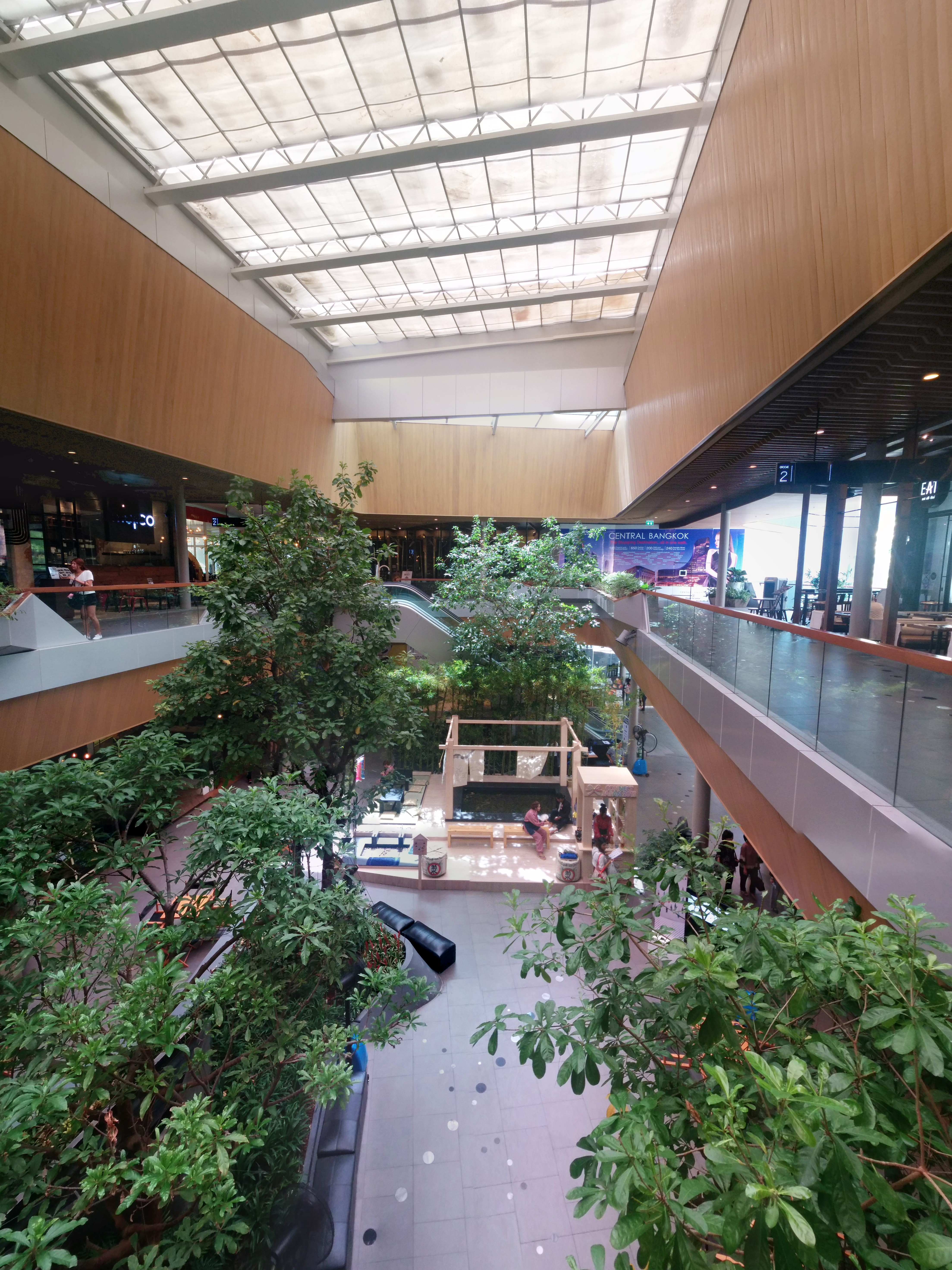 Dining and Pub zone